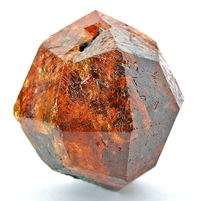 Spessartine Locality: Nani, Loliondo, Arusha Region, Tanzania (Locality at ) Size: miniature, 4.9 x 4.5 x 4.1 cm Spessartine Garnet A fullsized, equant miniature with superb form, as if it was carved. It is complete all around, , and has translucent zones, but is overall rather heavily included. Still , a good reference example with sharp crystallography. 138 grams.